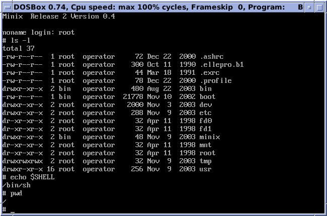 MINIX 2.0.4 running in DOSBox. Listing files and other shell interaction.